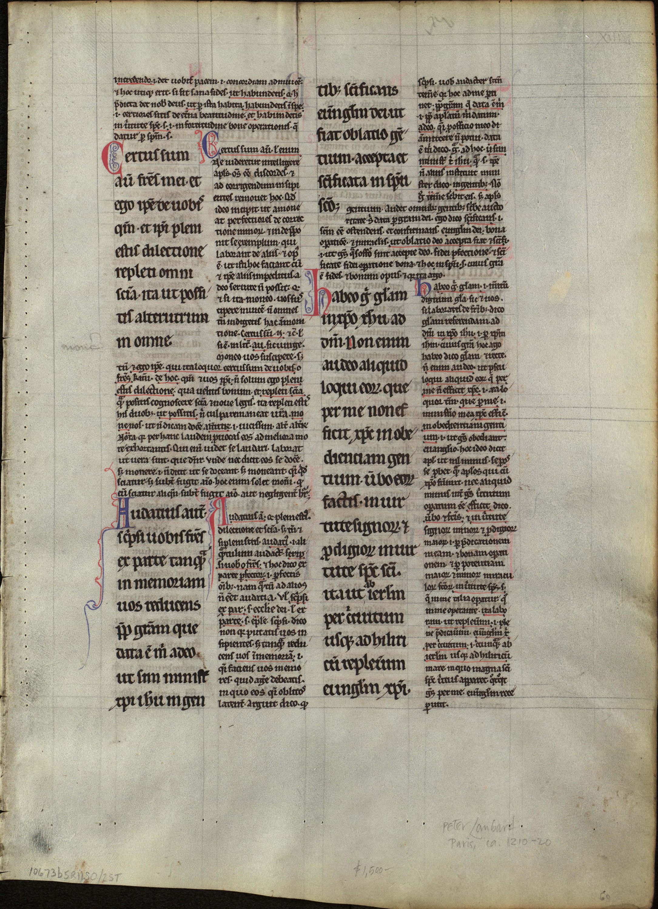 Leaf contains the gloss on the Pauline Epistles, specifically Romans 15:14-26. ca. 1215 France. This leaf is located in the special collections at the Portland State University Library.